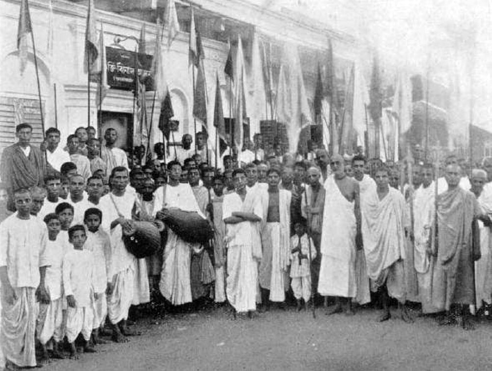 Sankirtana at Sri Bhaktivinoda Asana, Calcutta